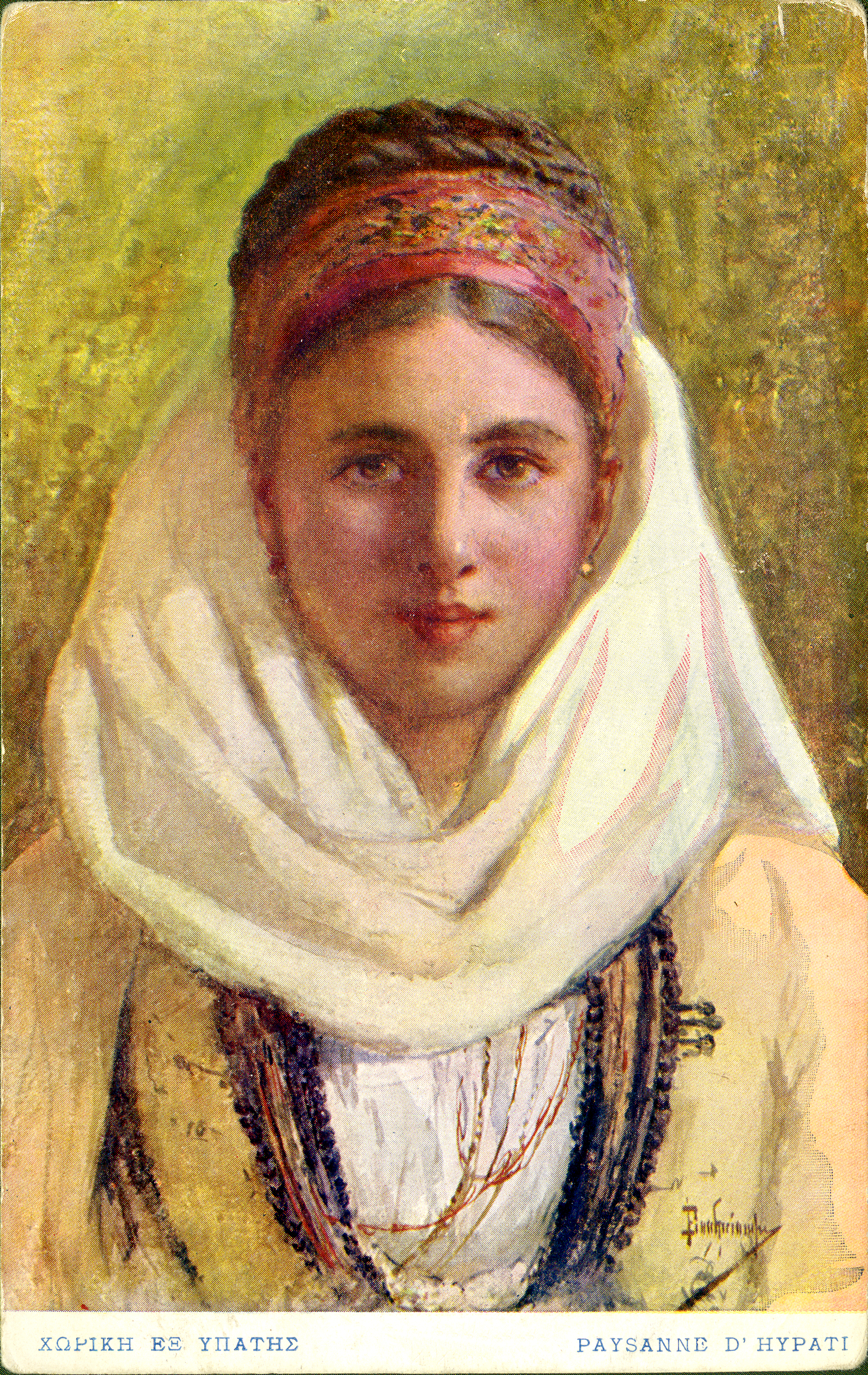 Peasant woman from Ypati. Postcard published by Aspiotis. Reproduction of a painting by Vicentios Boccatciambi.